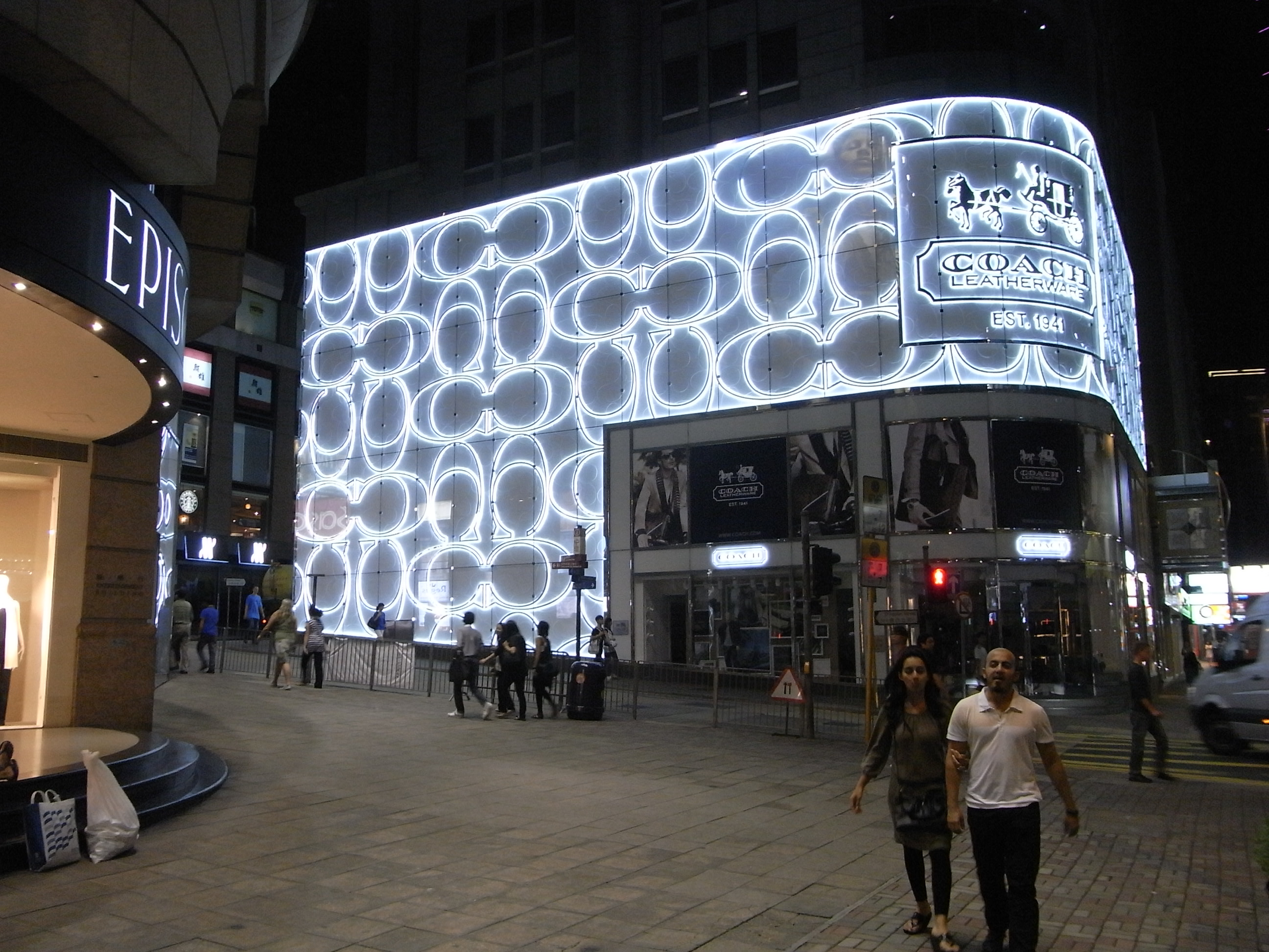 中環2010年9月